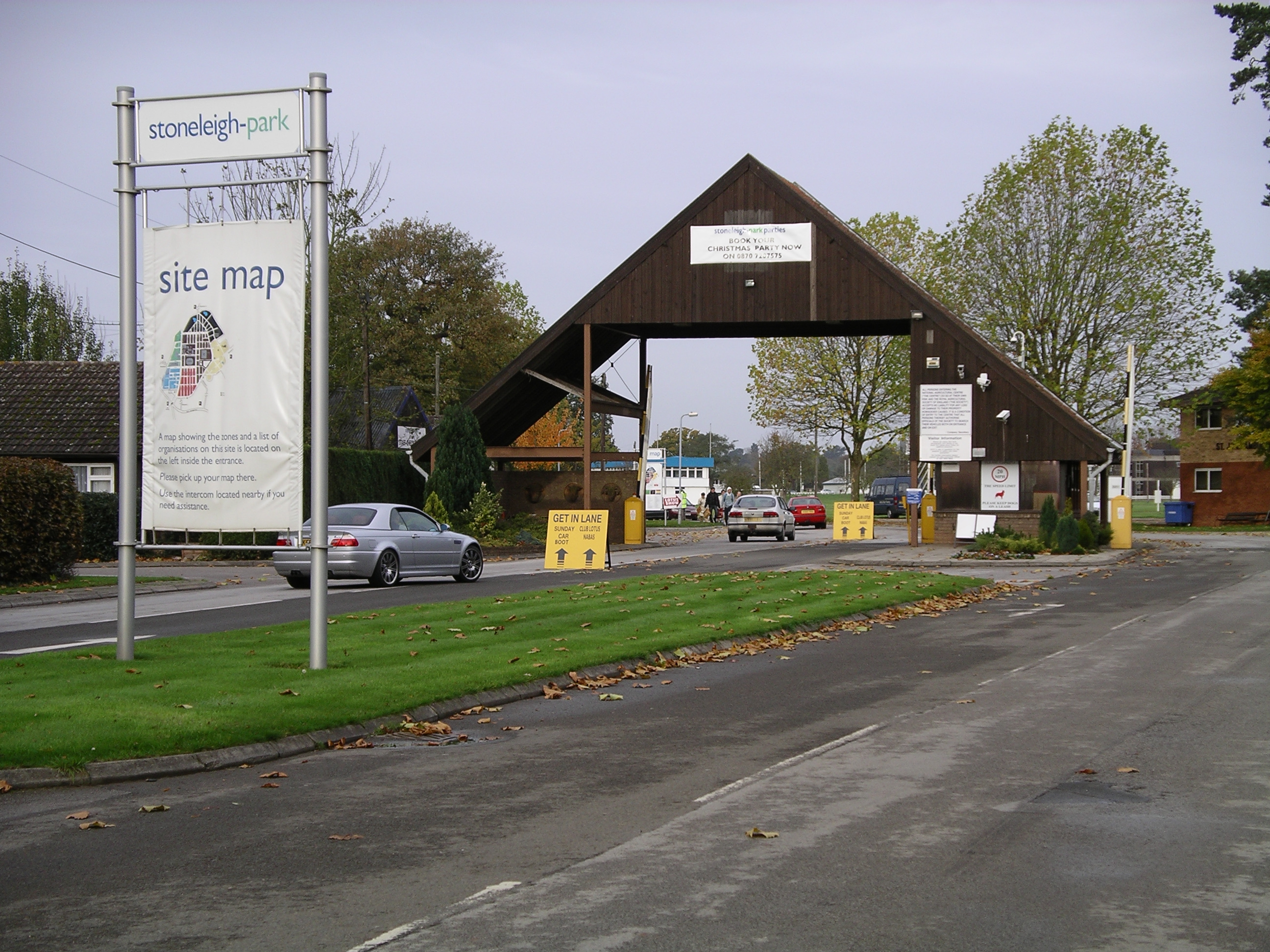 photograph of the entrance of Stoneleigh Park, Warwickshire, England.